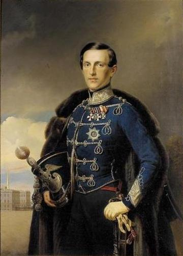 Grand Duke Konstantin Nikolayevich of Russia